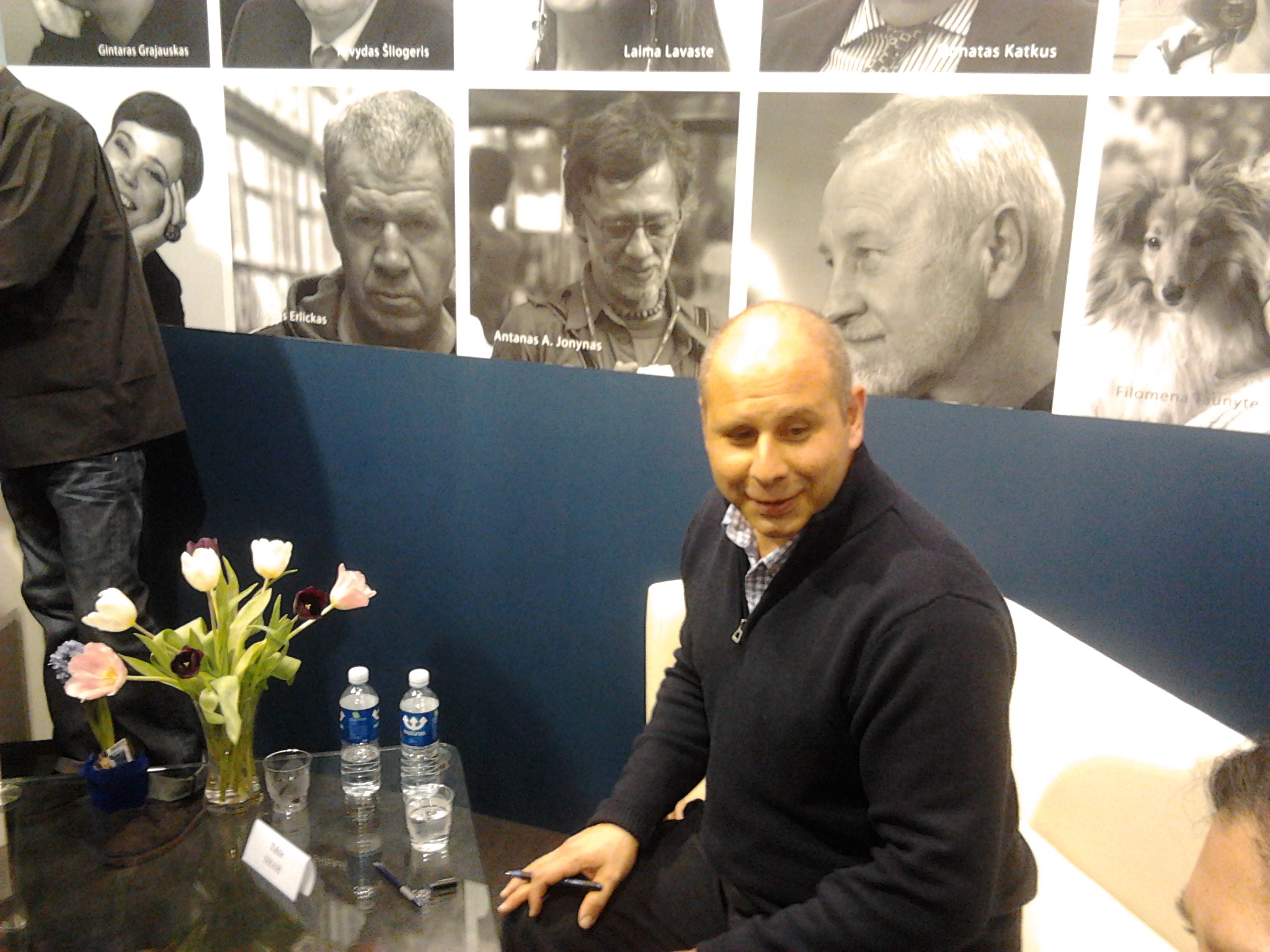 Writer Tahir Shah in Vilnius, 2013 Lithuania.